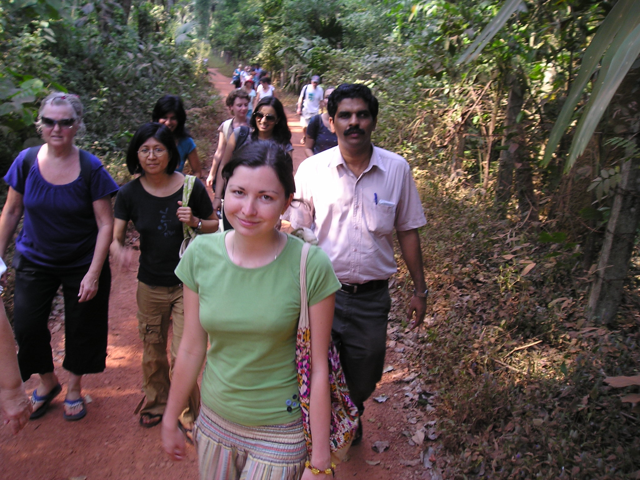 karimbam biodiversity centre